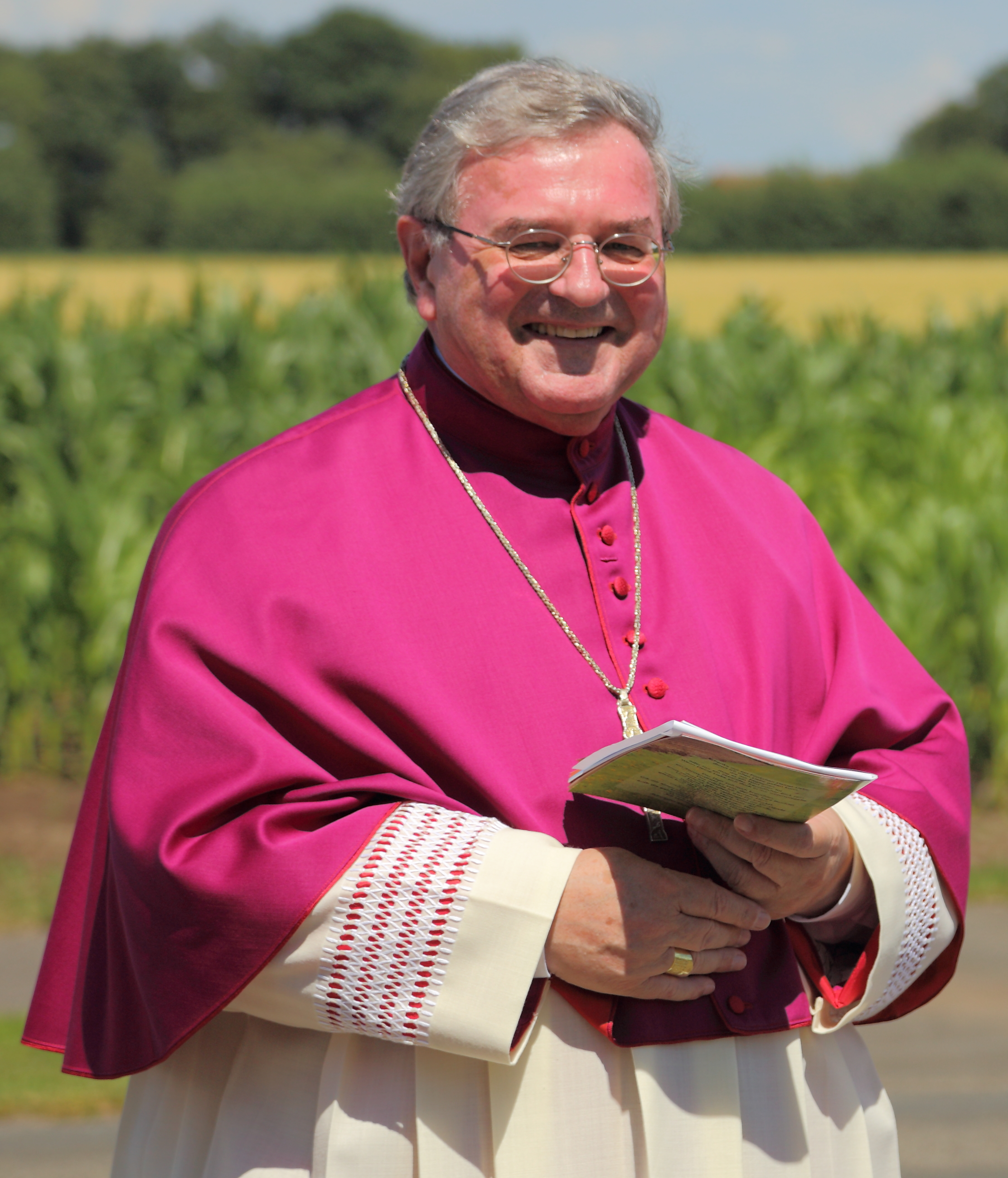 Dr. Heinrich Mussinghoff, Bishop of the Roman Catholic Diocese of Aachen, during a stay in Hopsten-Halverde, Kreis Steinfurt, North Rhine-Westphalia, Germany. Bishop Mussinghoff then served there as guest preacher and one of the celebrants on the occasion of the second Euthymia Day (Euthymia-Tag) in 2014. Picture shows him at the beginning of the traditional procession along the Sister Maria Euthymia Commemorative Path (Schwester-Maria-Euthymia-Gedenkweg). Every year four Euthymia Days (Euthymia-Tags) are hold in the memory of Blessed Sister Maria Euthymia.